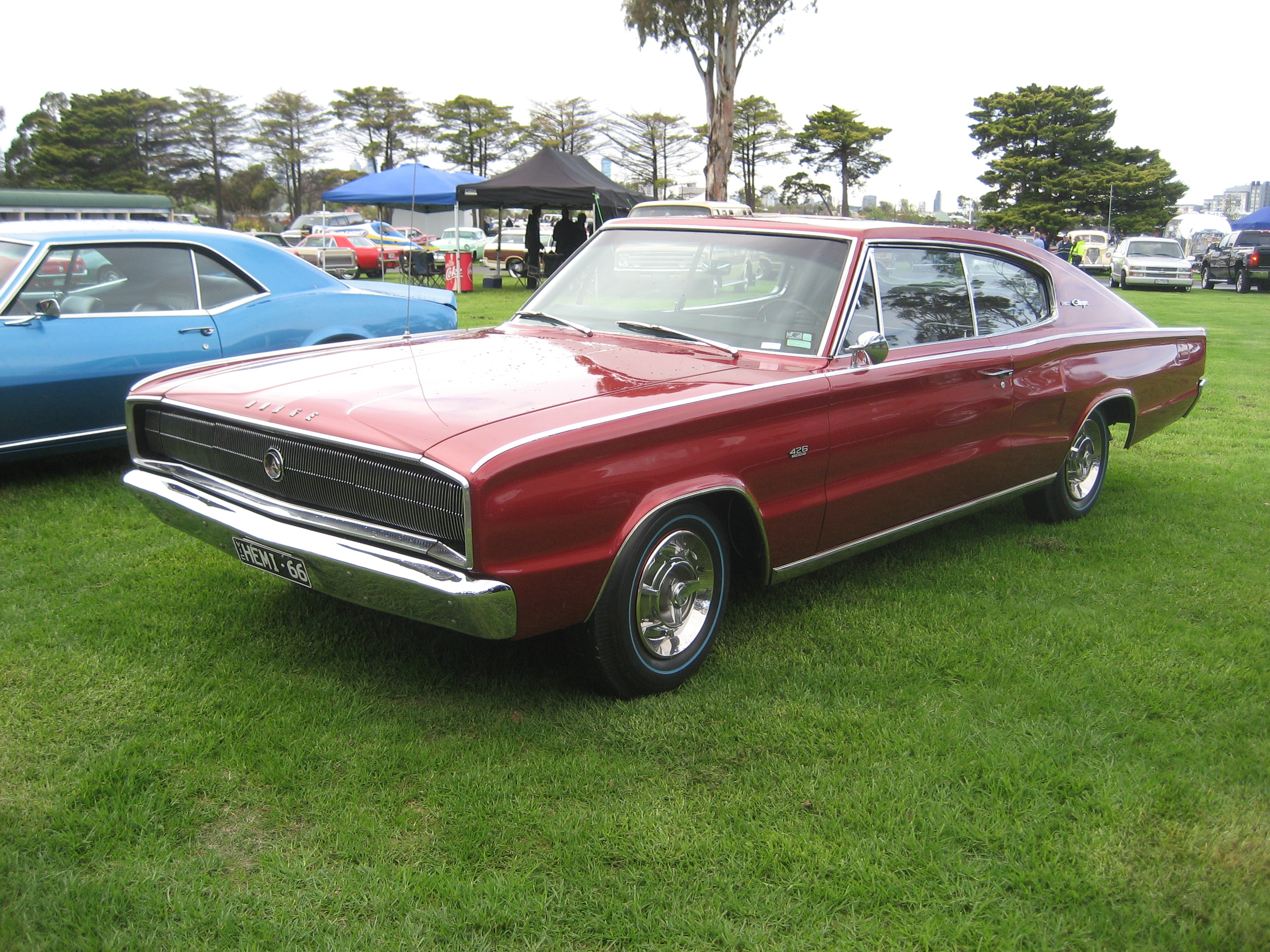 Based on the Dodge Coronet but with a fastback (B body ). Engines: 318, 361, 325bhp 383 and 425bhp 426 Hemi